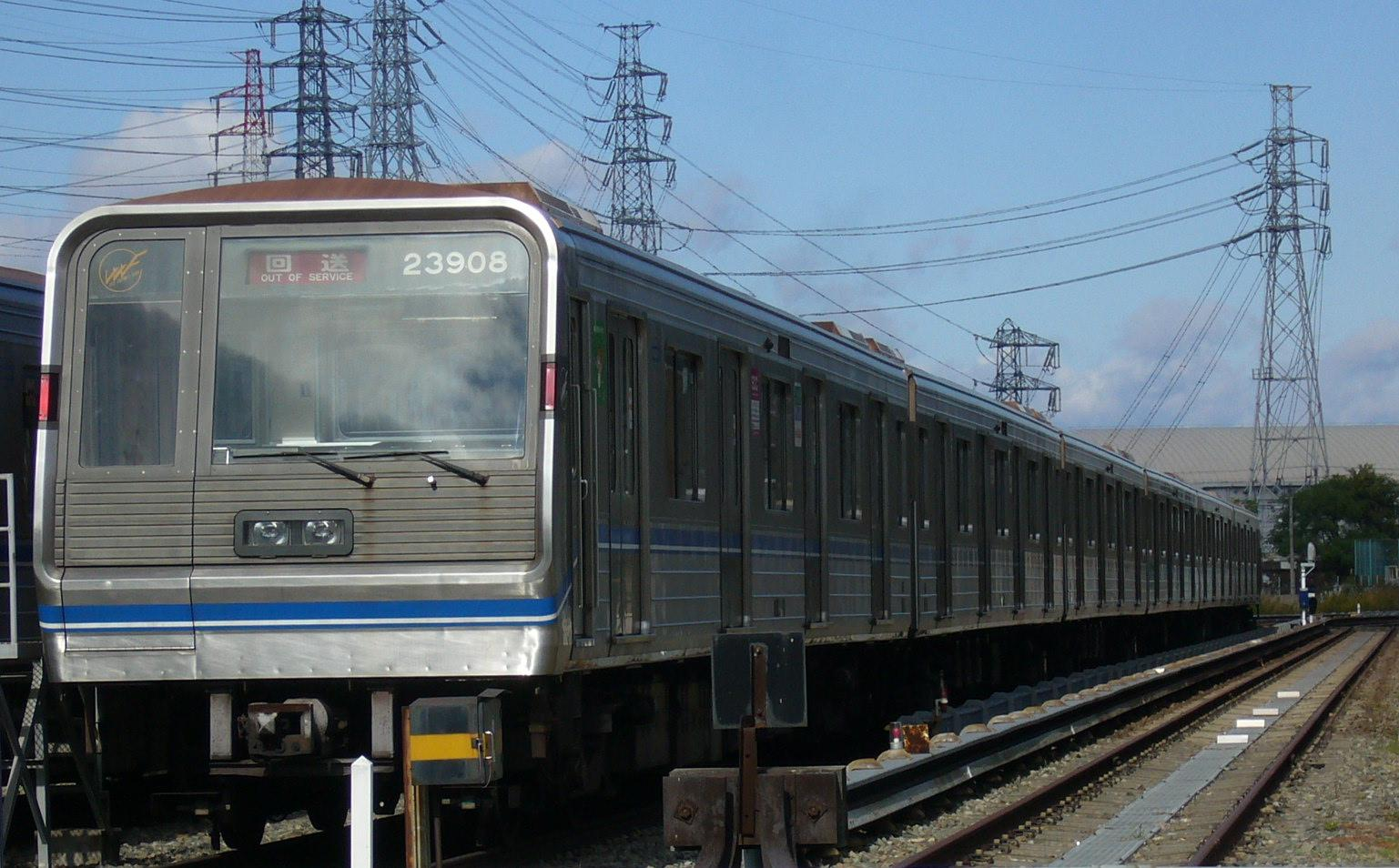 An Osaka Subway Yotsubashi Line 23 series EMU at Midorigi Depot in Osaka